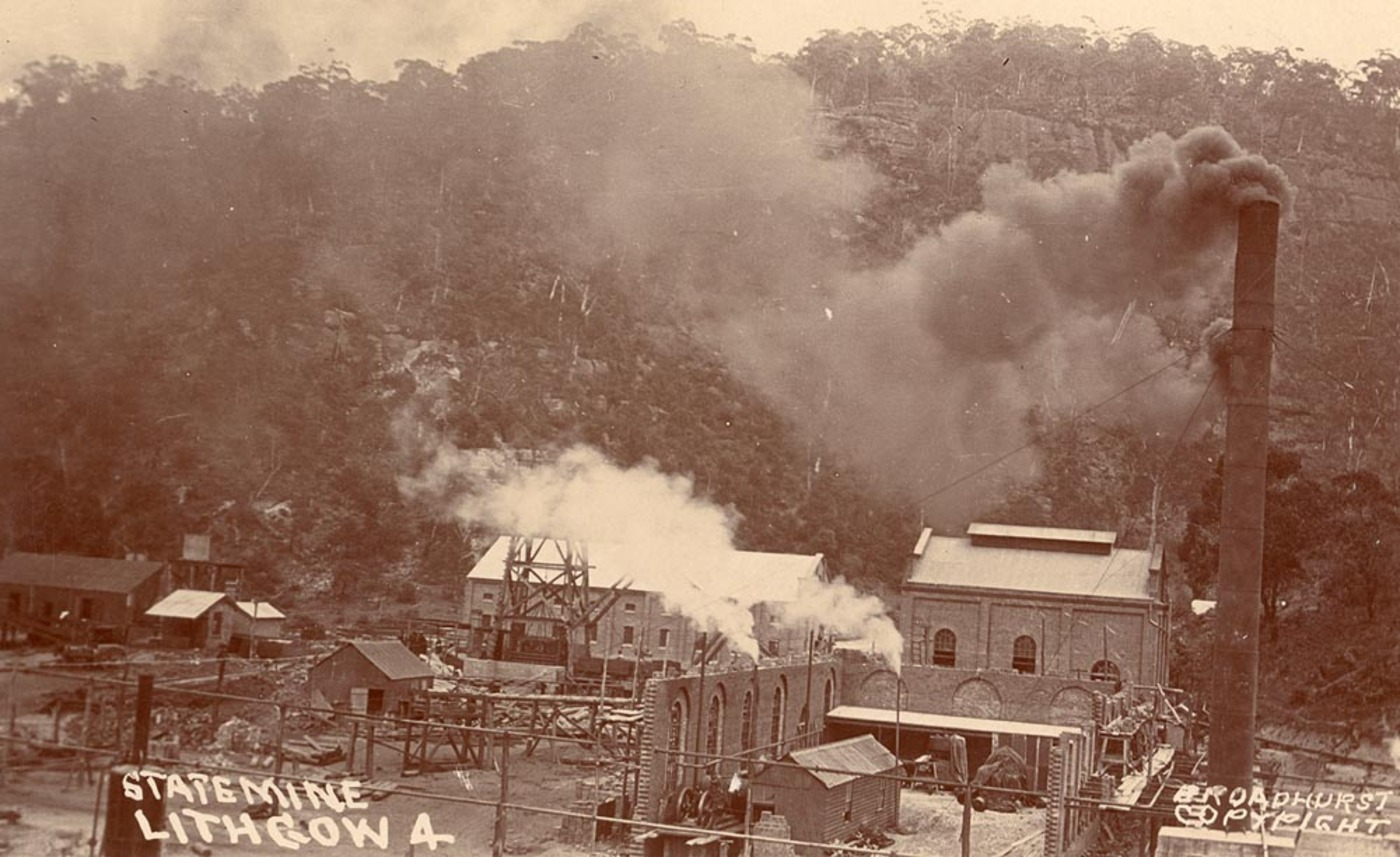 Blast Furnace, Lithgow